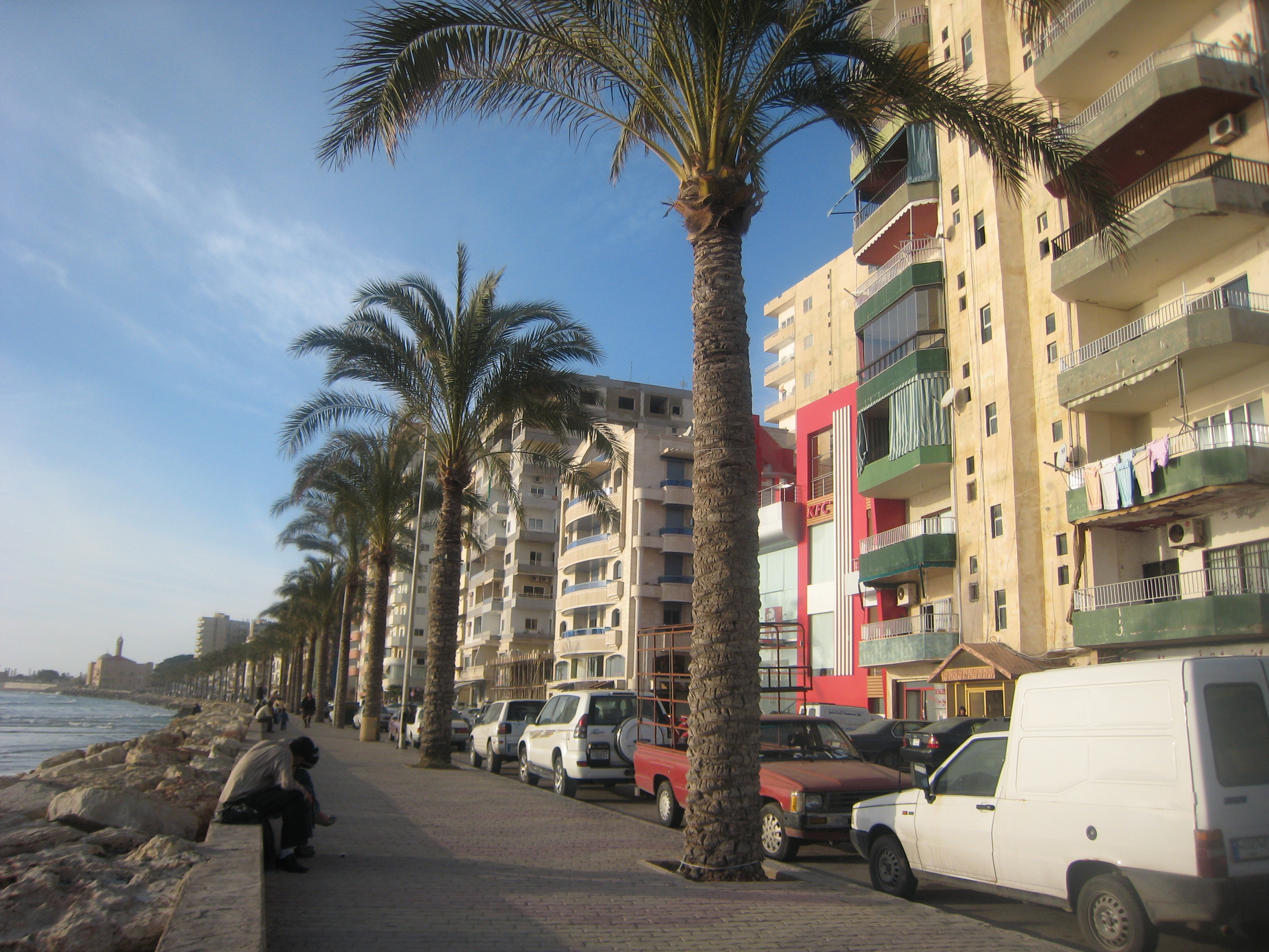 The south part of Tyre.